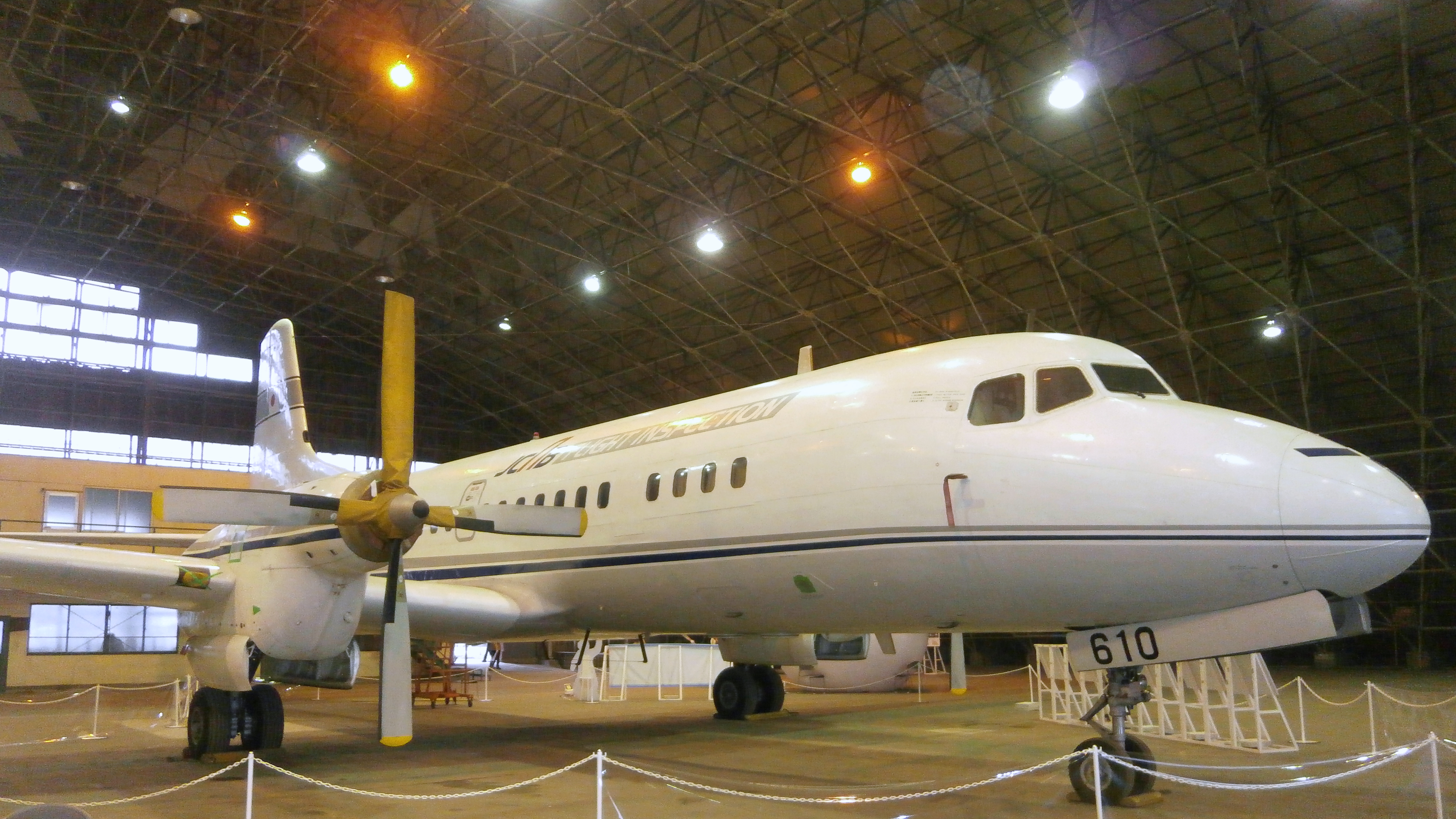 YS-11 JA8610 in Haneda Airport T101 Hangar.